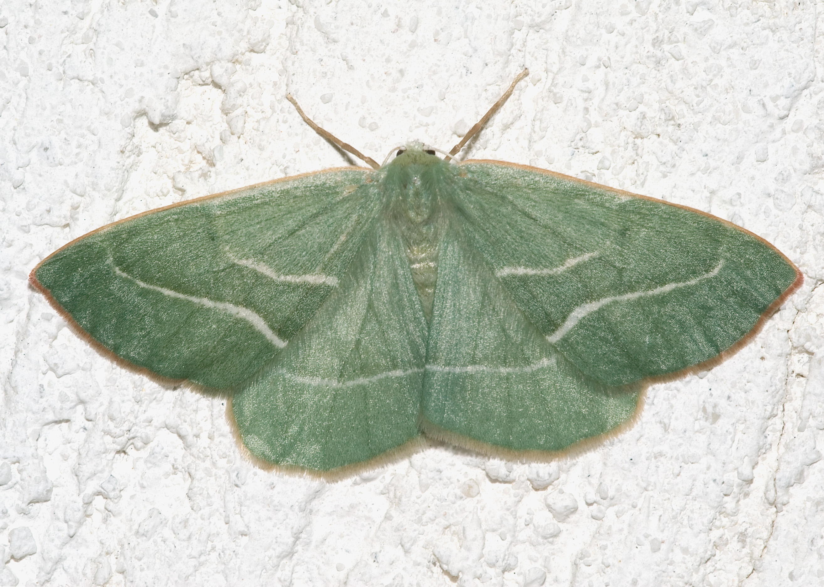 Please report references to kulacgmx.at.